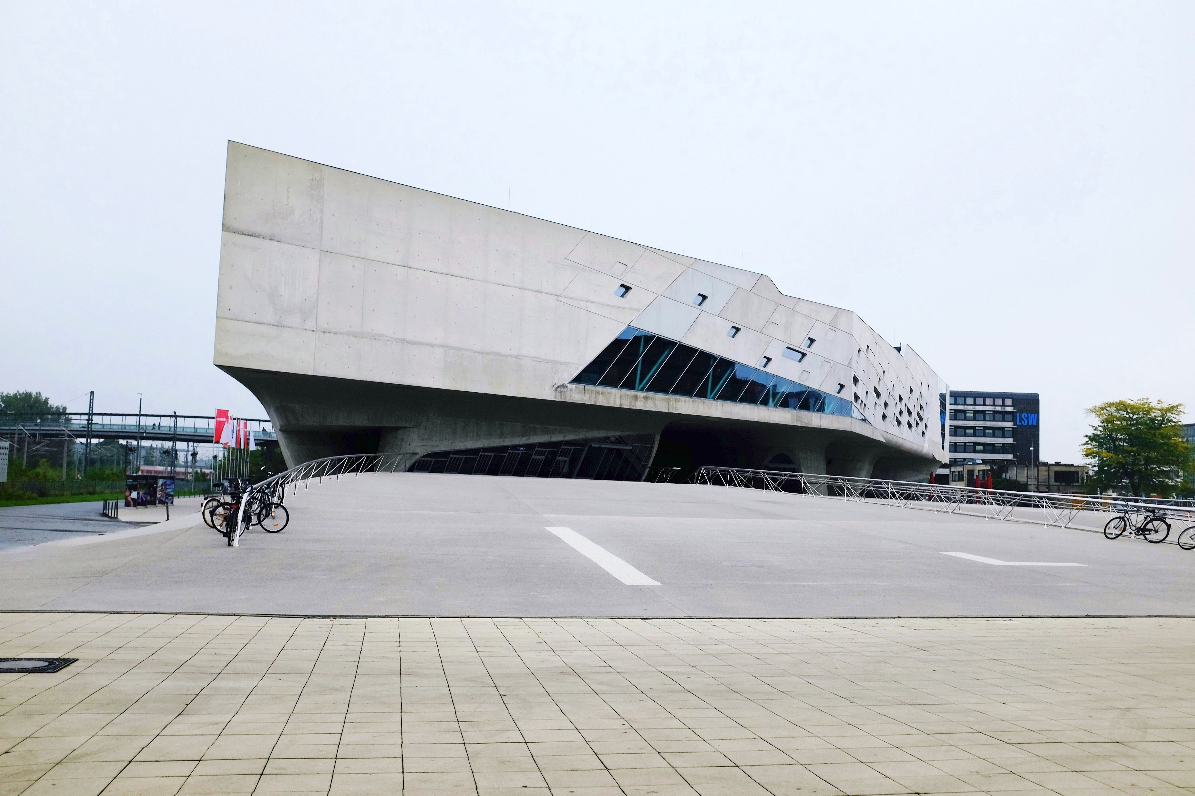 PHAENO science center designed by Zaha Hadid